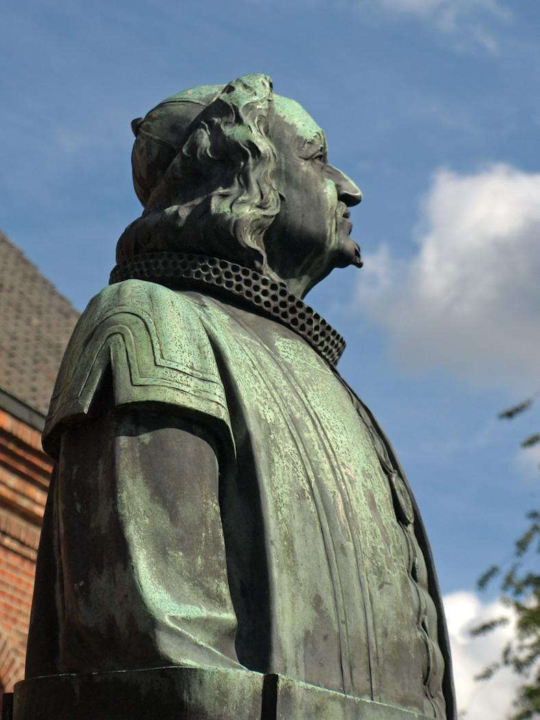 Wedel(Schleswig-Holstein, Germany), Memorial of Johann Rist, photo 2011